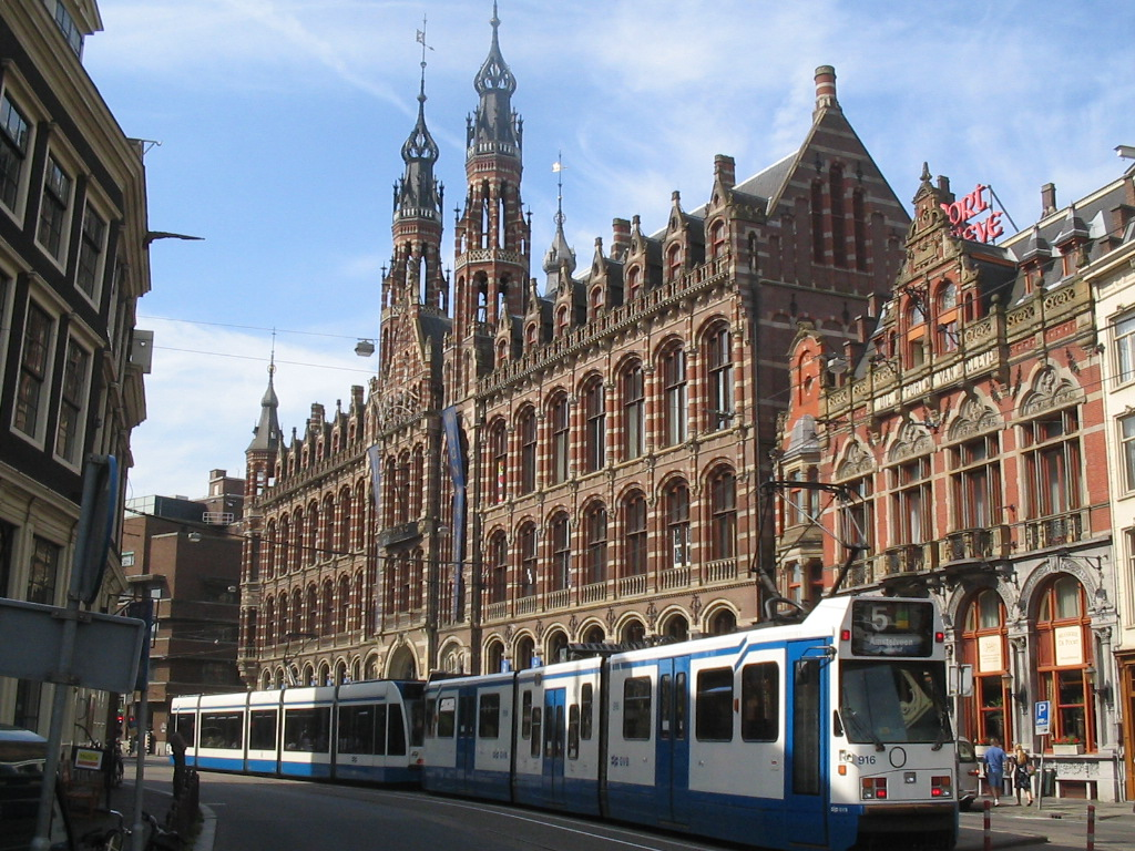 Magna plaza shopping centre, old postoffice, Nieuwezijds Voorburgwal; tram line 5 (Amsterdam, Netherlands), july 2005